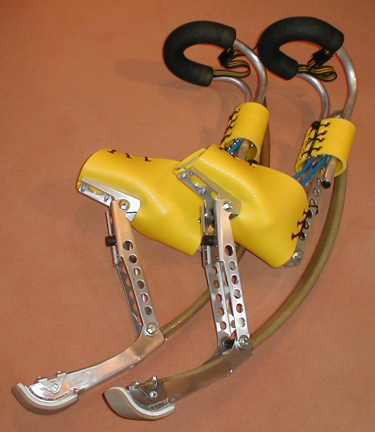 Powerskip Standard Manufactured by the patent holder, Alexander Boeck's, company.